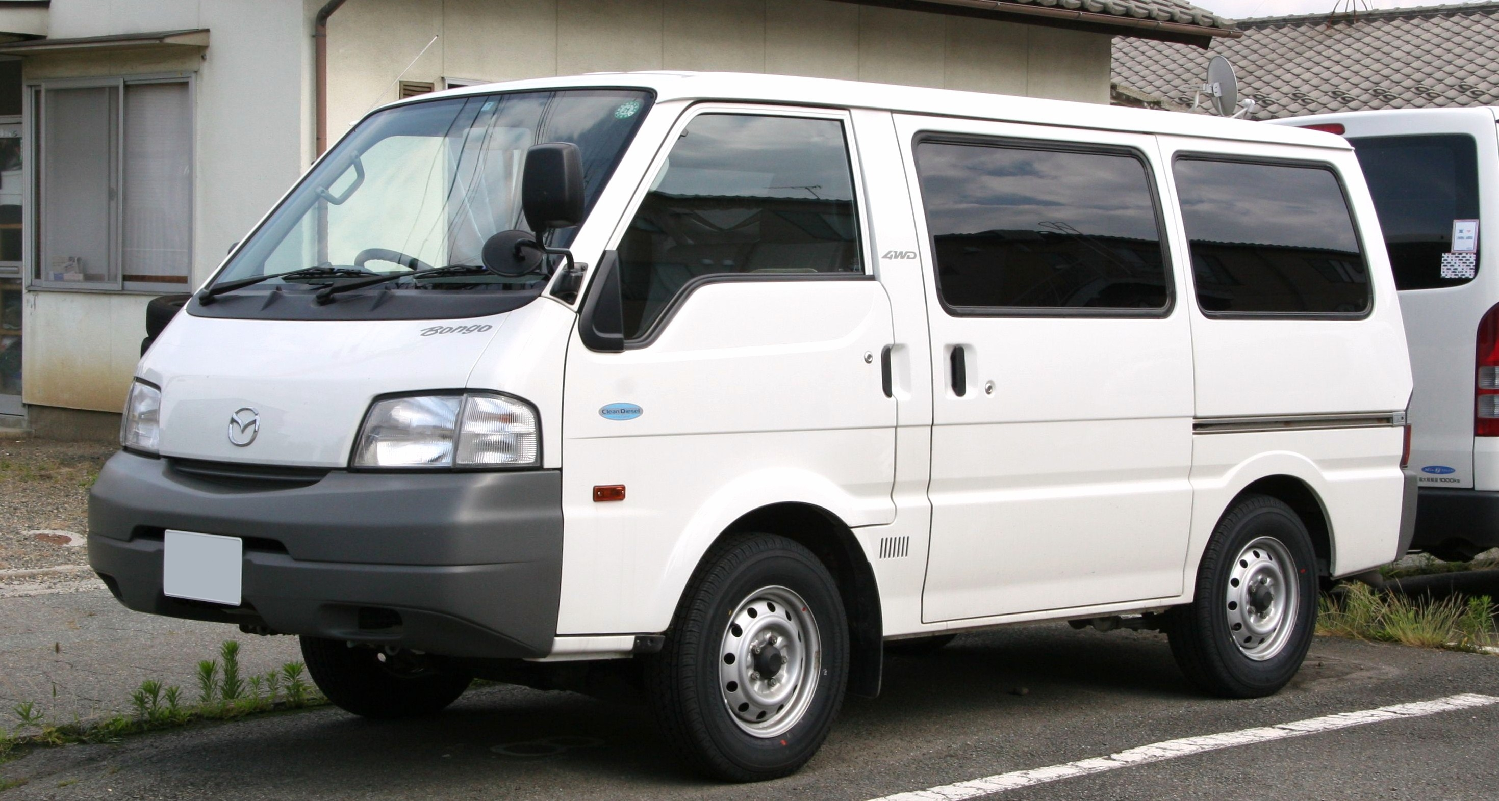 Mazda Bongo